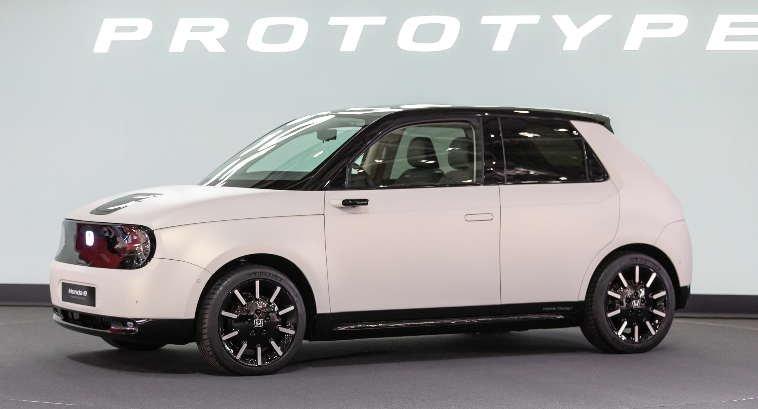 Geneva International Motor Show 2019, Le Grand-Saconnex